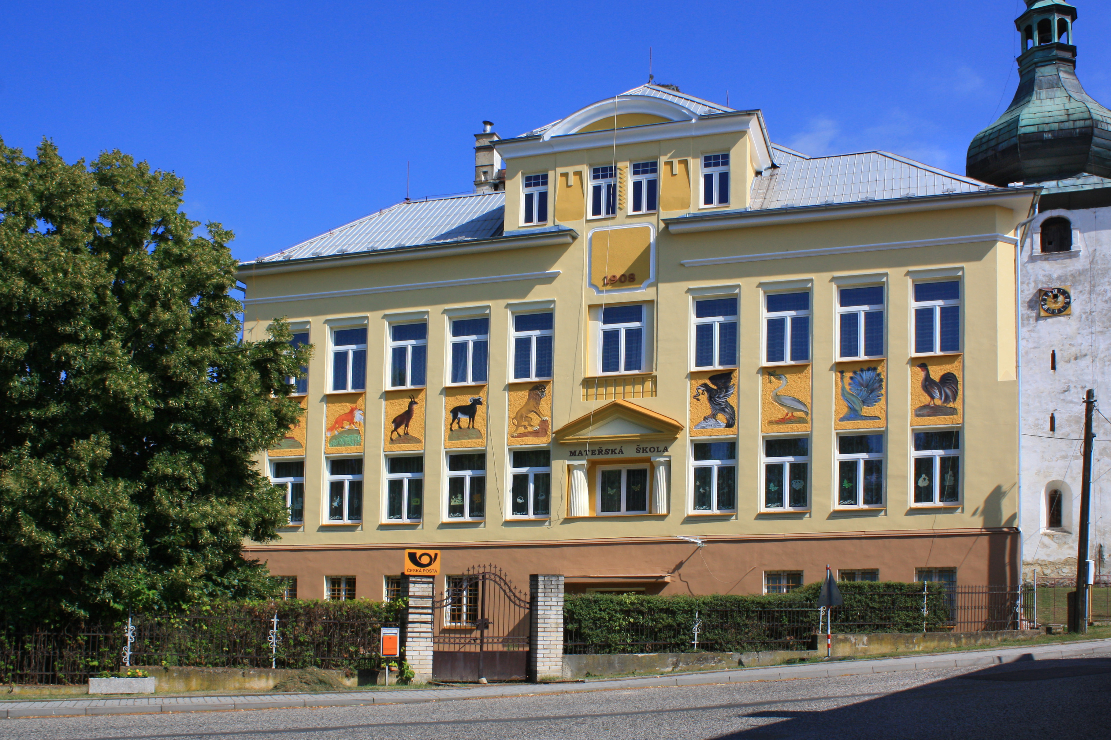 Kindergarten in Třebeň village, Czech Republic